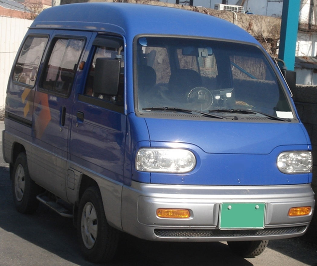 Daewoo Damas2